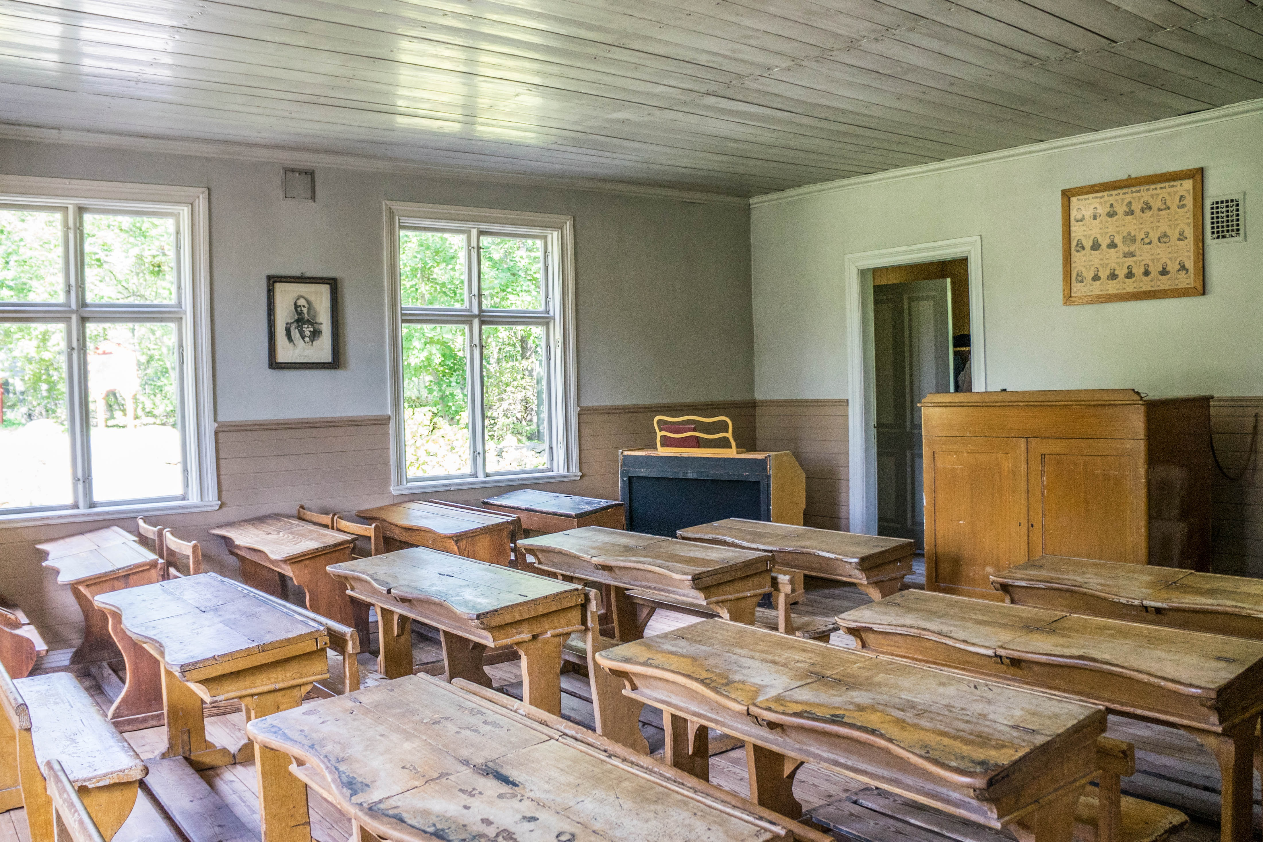 An example of a traditional classroom in Sweden